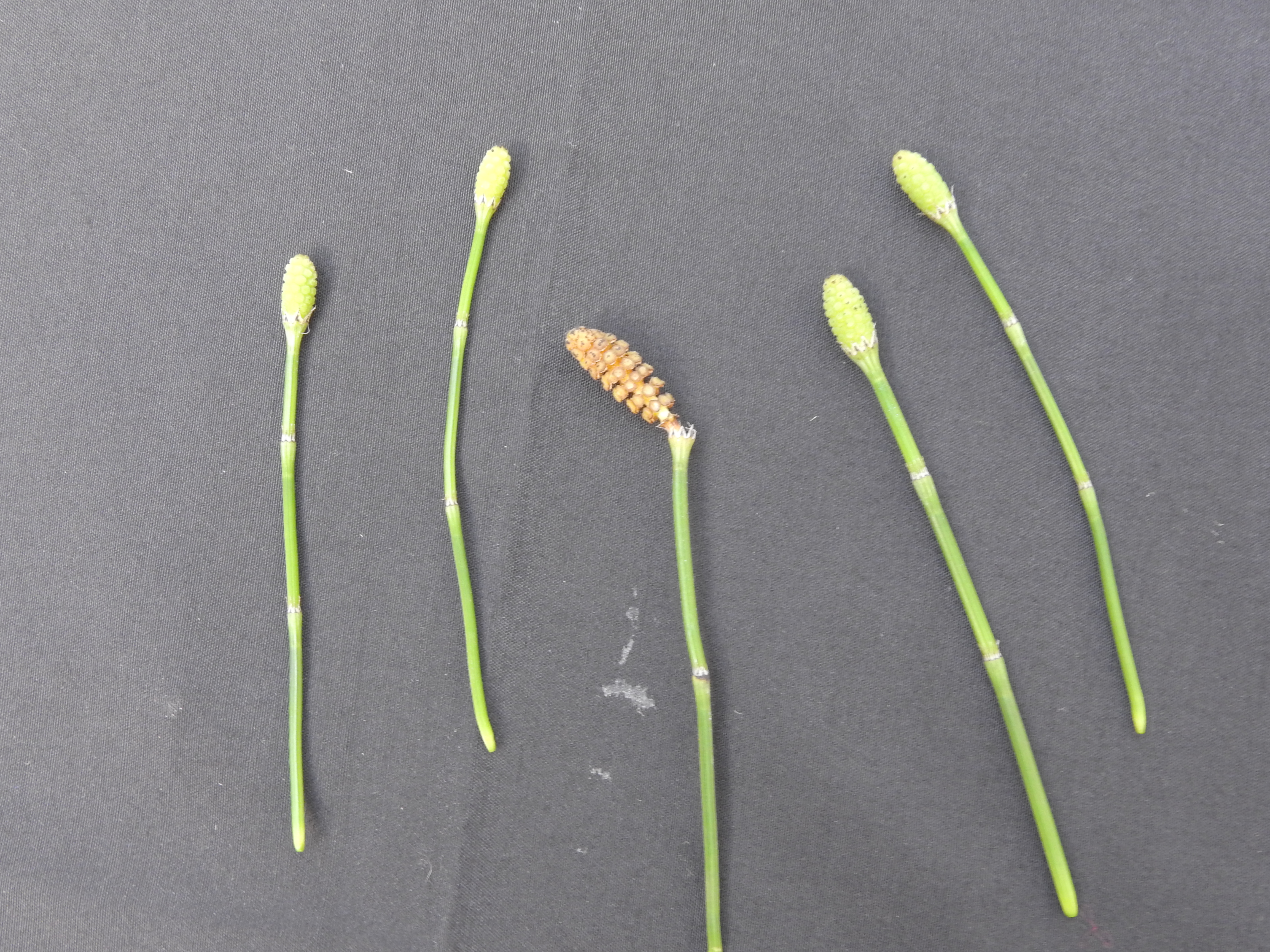 Equisetaceae-herb,cone.